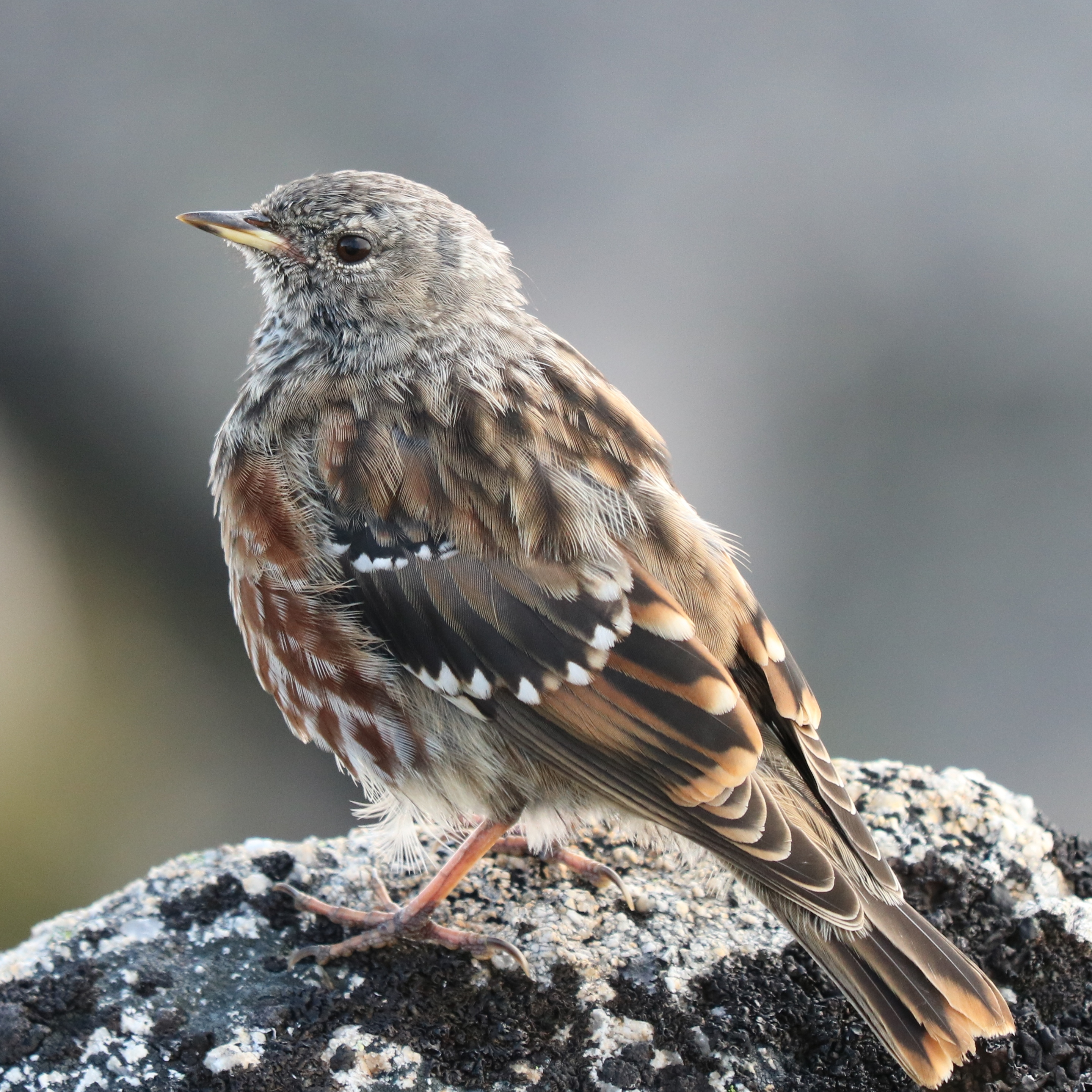 Prunella collaris erythropygia in Mount Jonen, Hida Mountains, Azumino, Nagano prefecture, Japan.